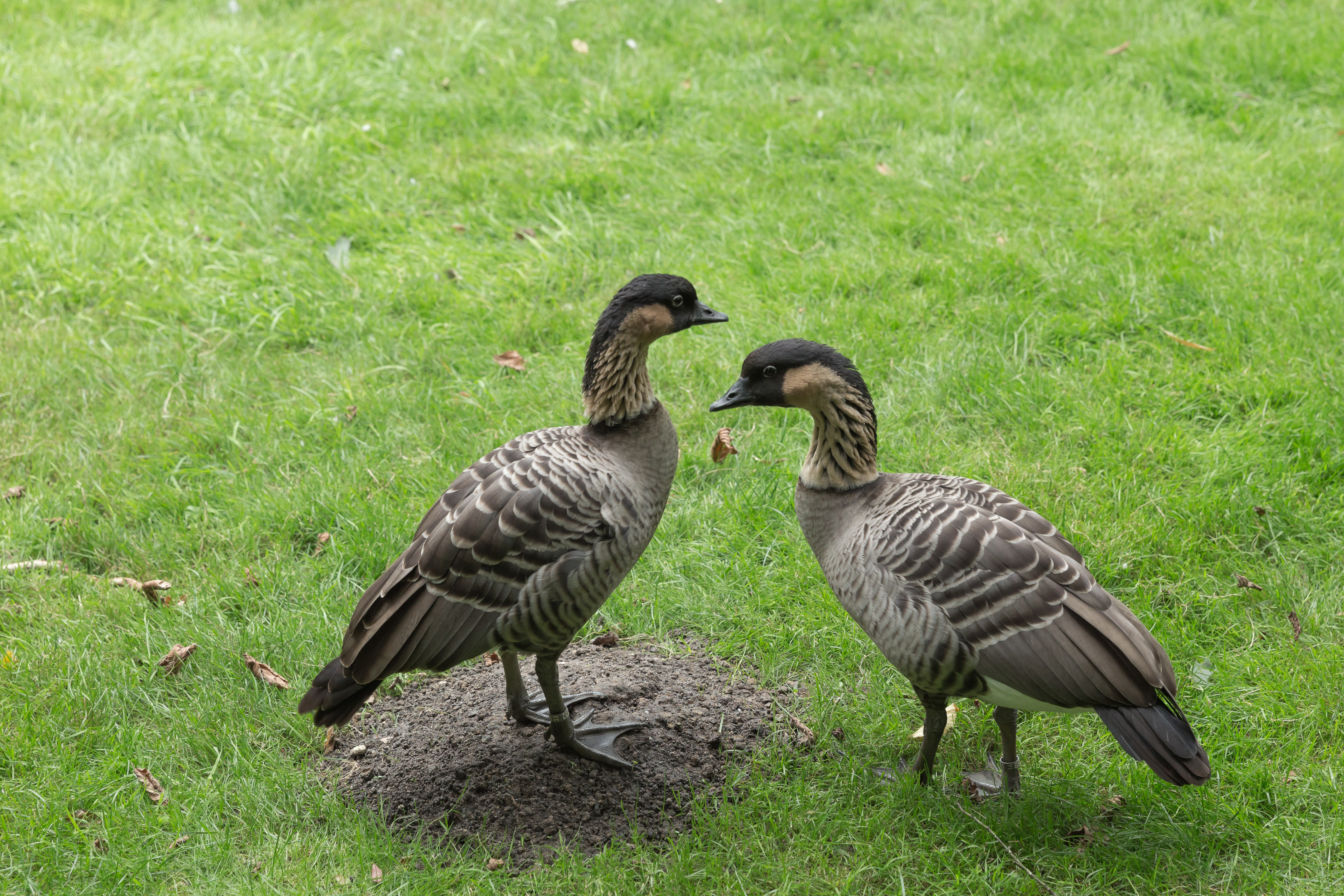 Branta sandvicensis (Nene) in the ZooParc de Beauval in Saint-Aignan-sur-Cher, France.